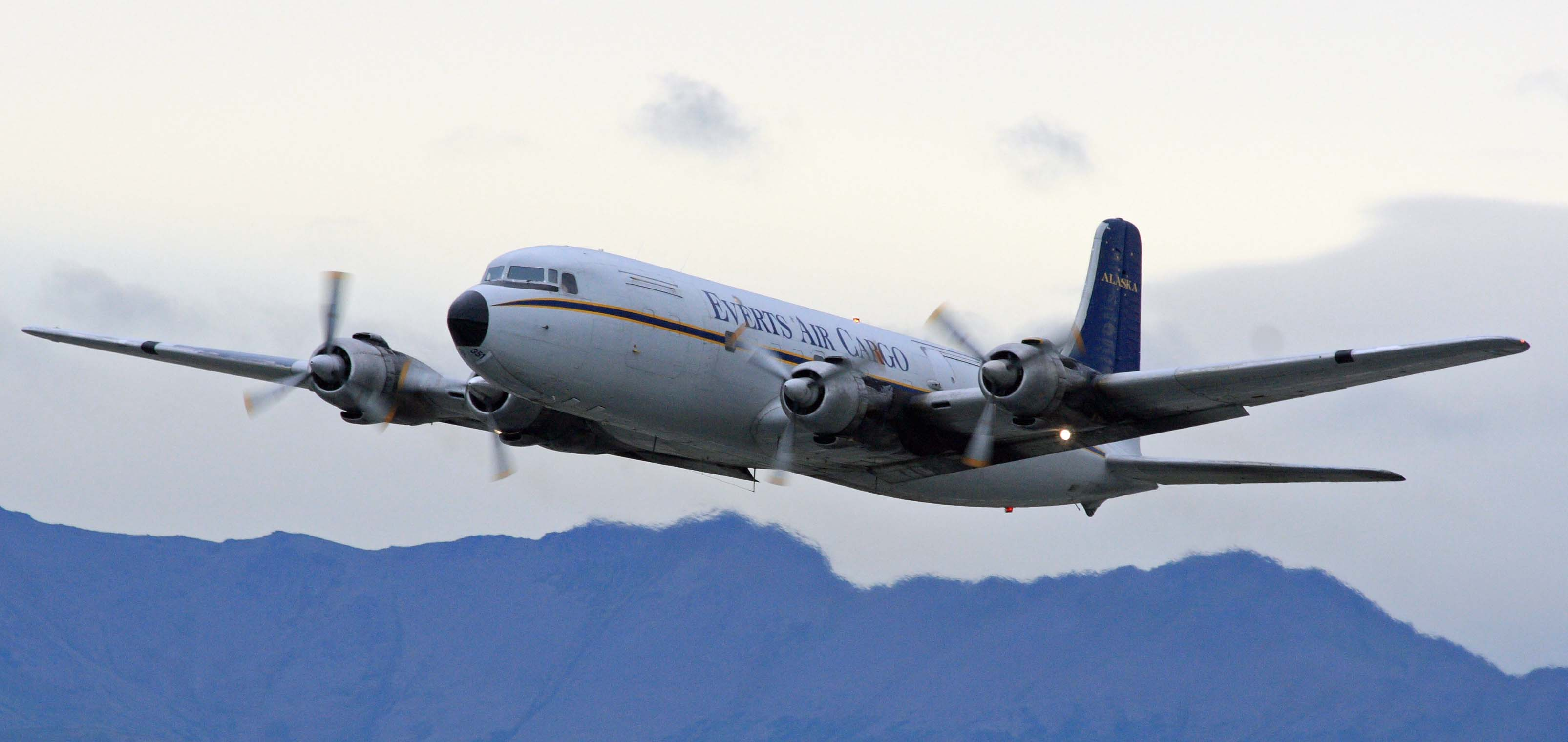 I took this photo at Anchorage International Airport in August 2011.